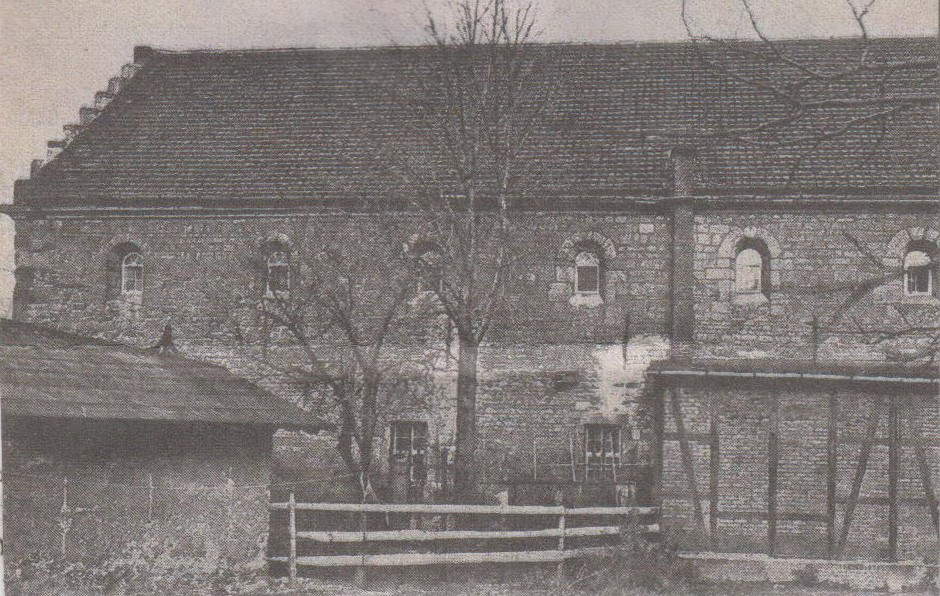 Erfurt former Leonhardskirche at Petersberg (destroyed in 1945)